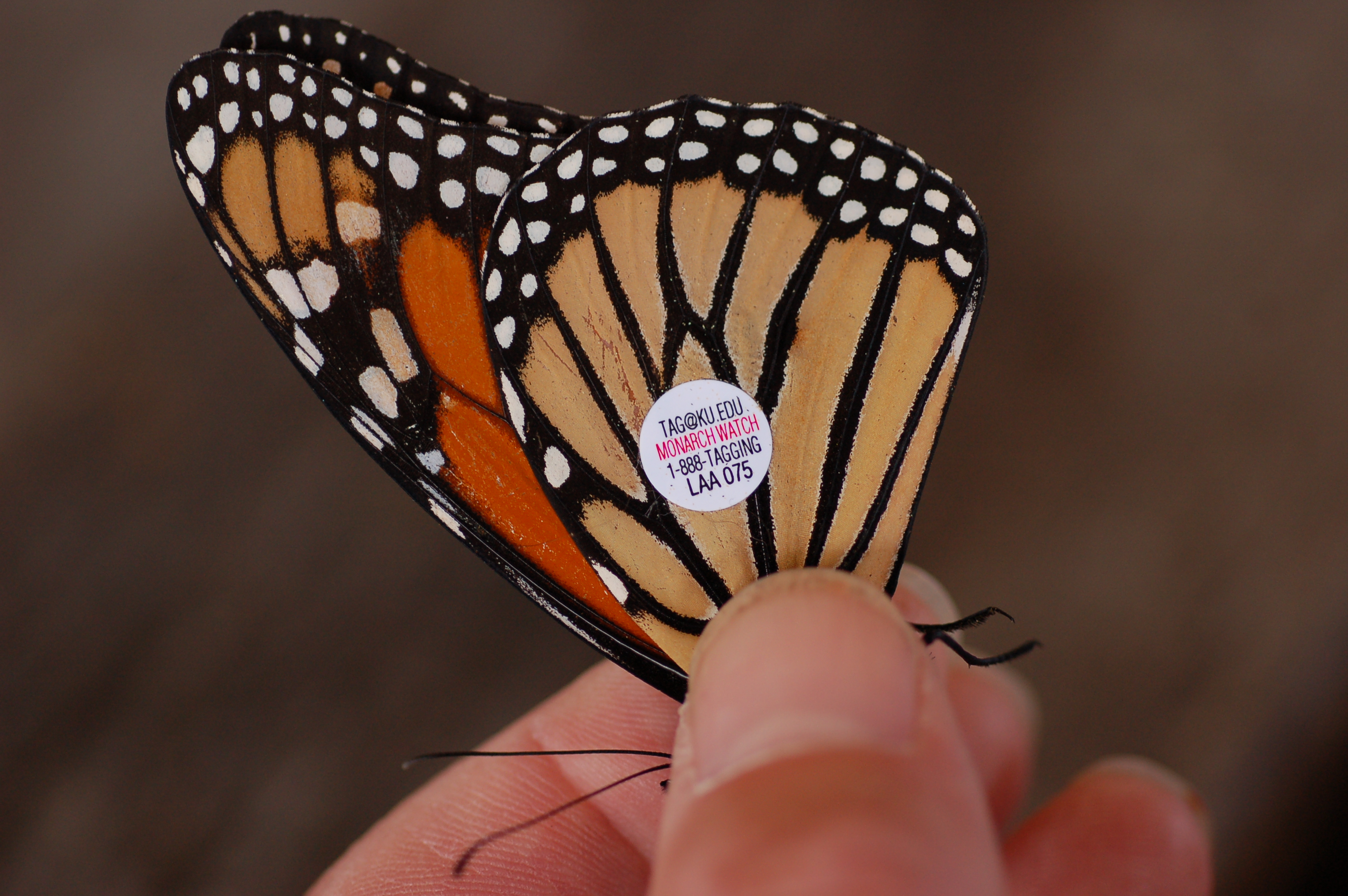 Closeup photograph of a Monarch Butterflyen (Danaus plexippus en ) showing a freshly applied identification tag. The butterfly was part of the Cape May Bird Observatory's program of tagging in Cape May, New Jersey. Photo taken at the Cape May Point State Park.